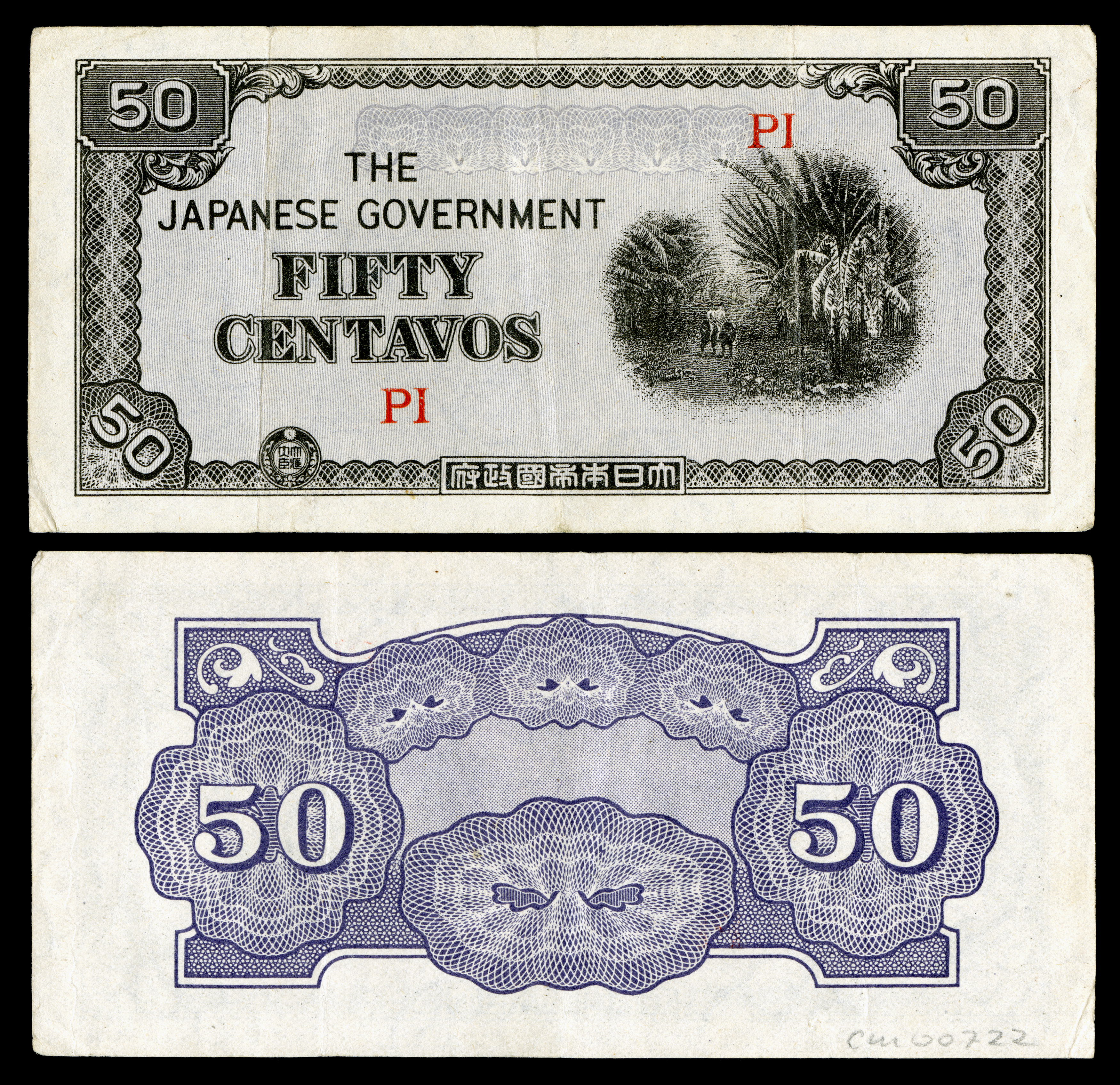 Japanese Government (Philippines)-50 Centavos (1942) The Japanese government-issued Philippine peso, part of the Japanese invasion money of World War II, was issued between 1942 and 1945 by the occupying Japanese government.